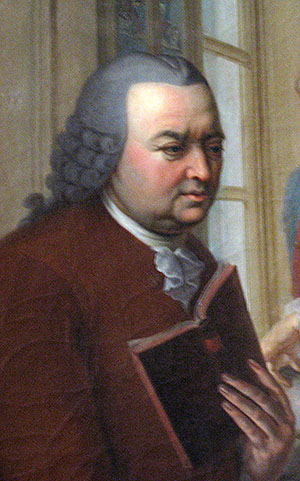 Gerhard van Swieten (1700 – 1772), dutch physician in Austrian service. Portrait part of the Kaiserbild in the Naturhistorisches Museum in Vienna, that shows emperor Franz Stephan among his scientific advisors.